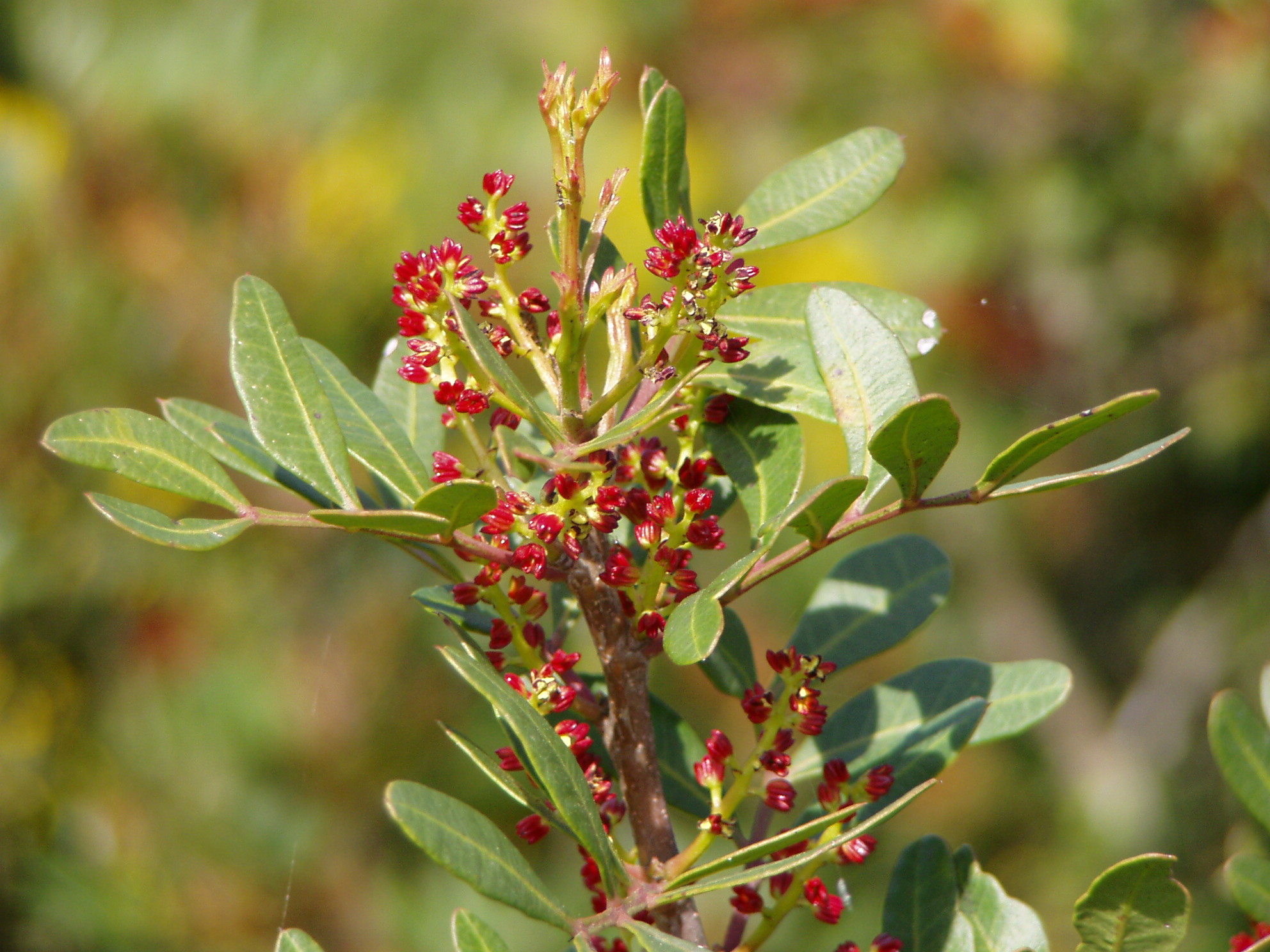 Lentisk Tree, Mastic Tree